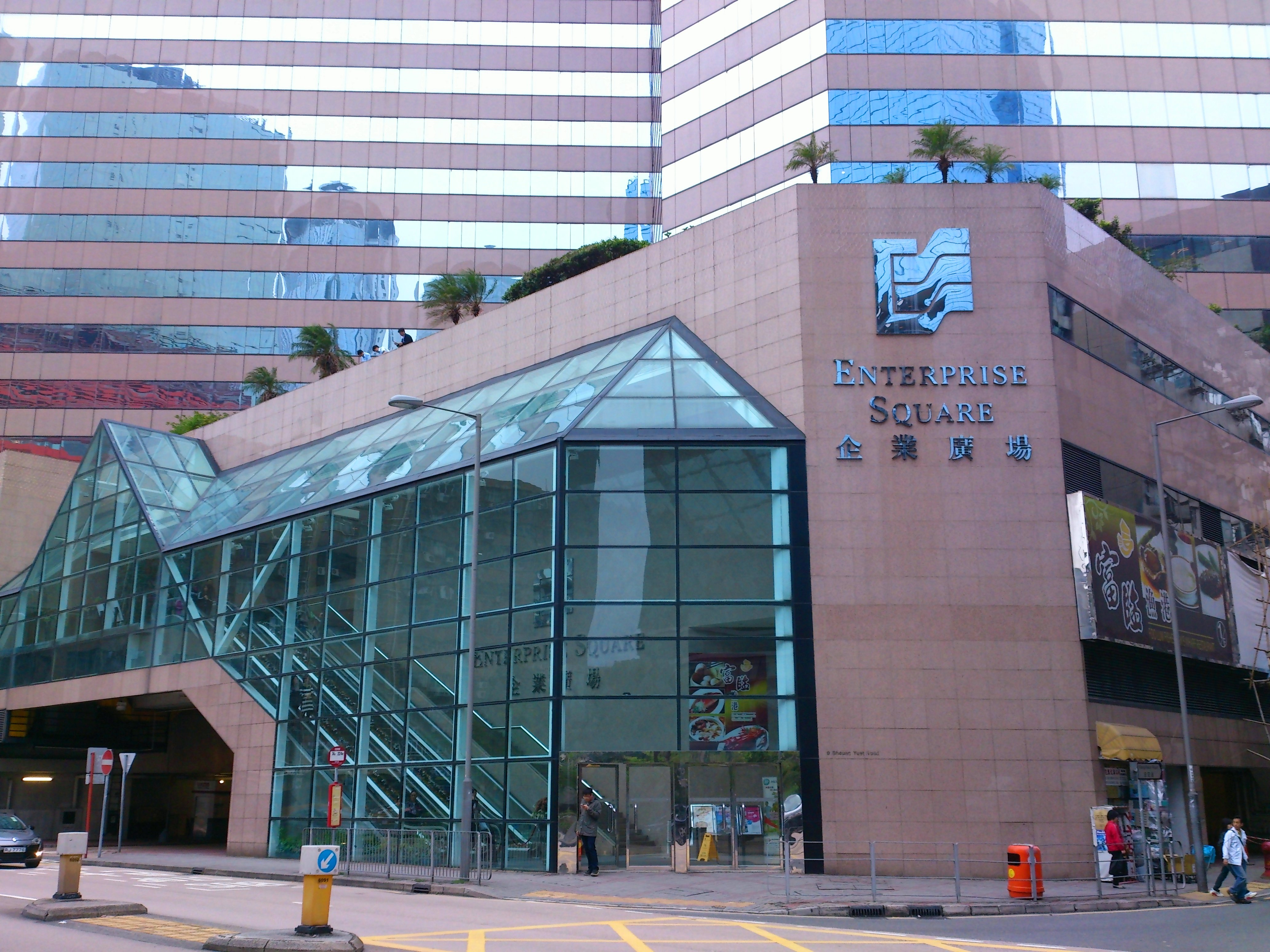 Enterprise Square in 2012